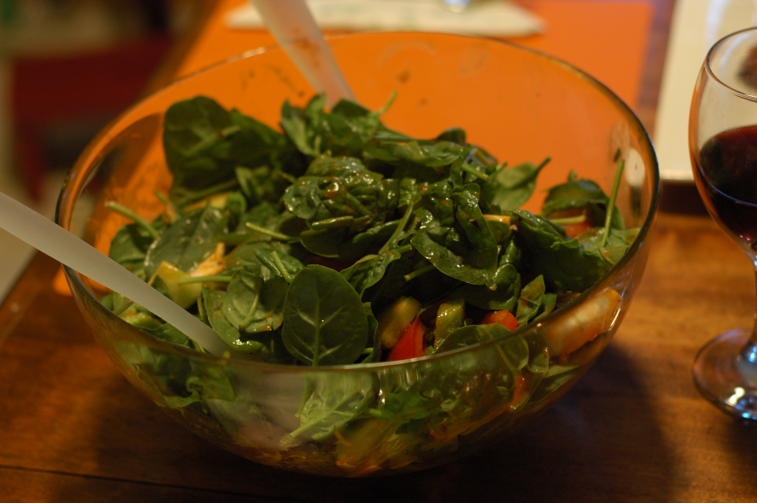 Uploaded with the Flock Browser